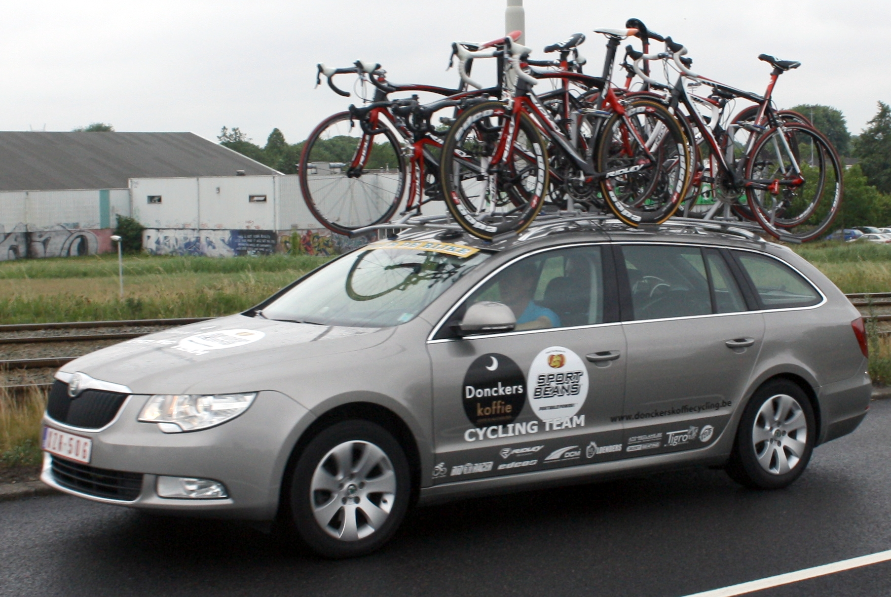 Donckers Koffie team car at the 2011 Tour de Rijke